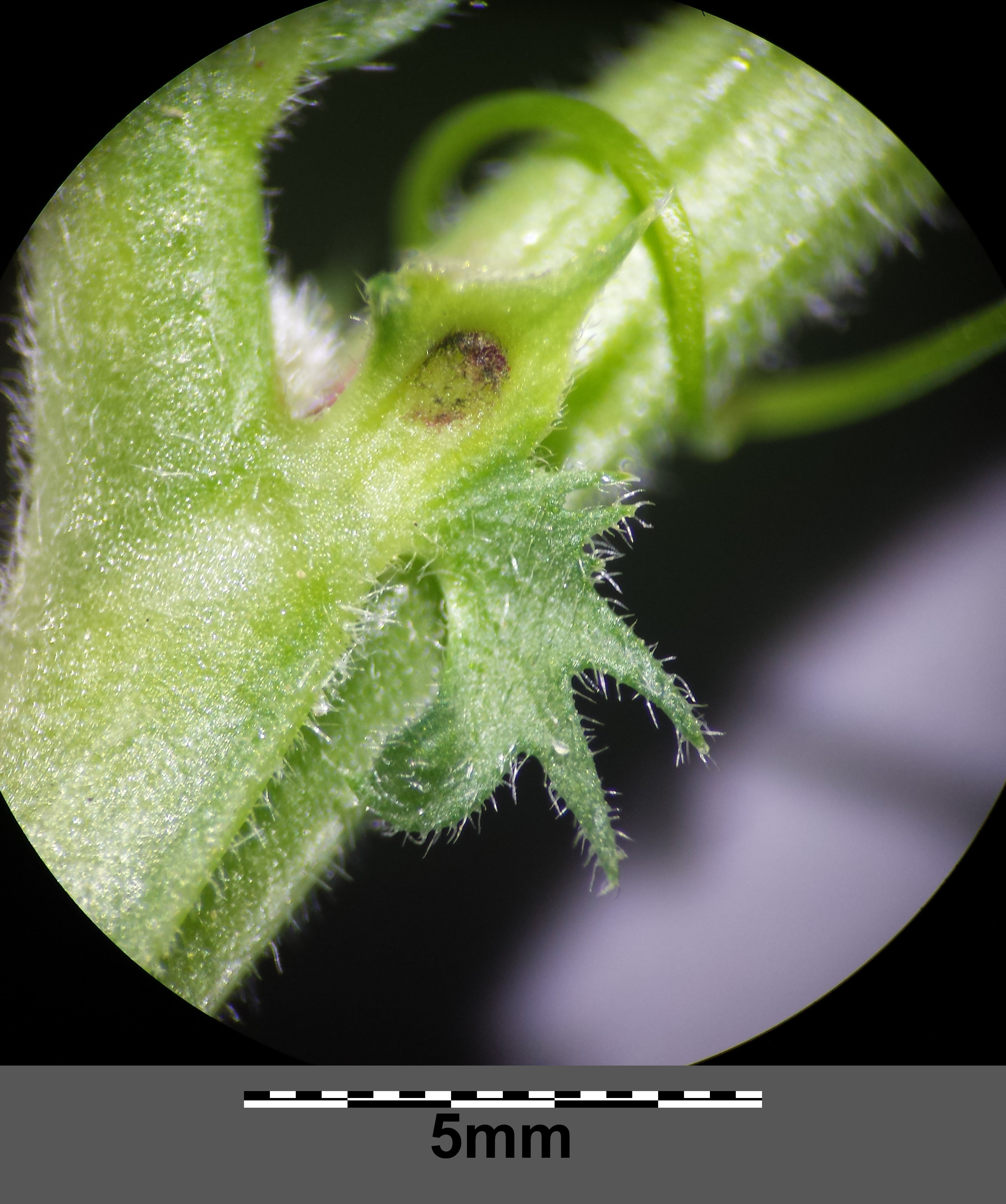 Stem with stipule Taxonym: Vicia sativa ss Fischer et al. EfÖLS 2008 ISBN 978-3-85474-187-9 Location: Altenberg north of Nursch, district Korneuburg, Lower Austria - ca. 350 m a.s.l. Habitat: grainfield (cultivated)